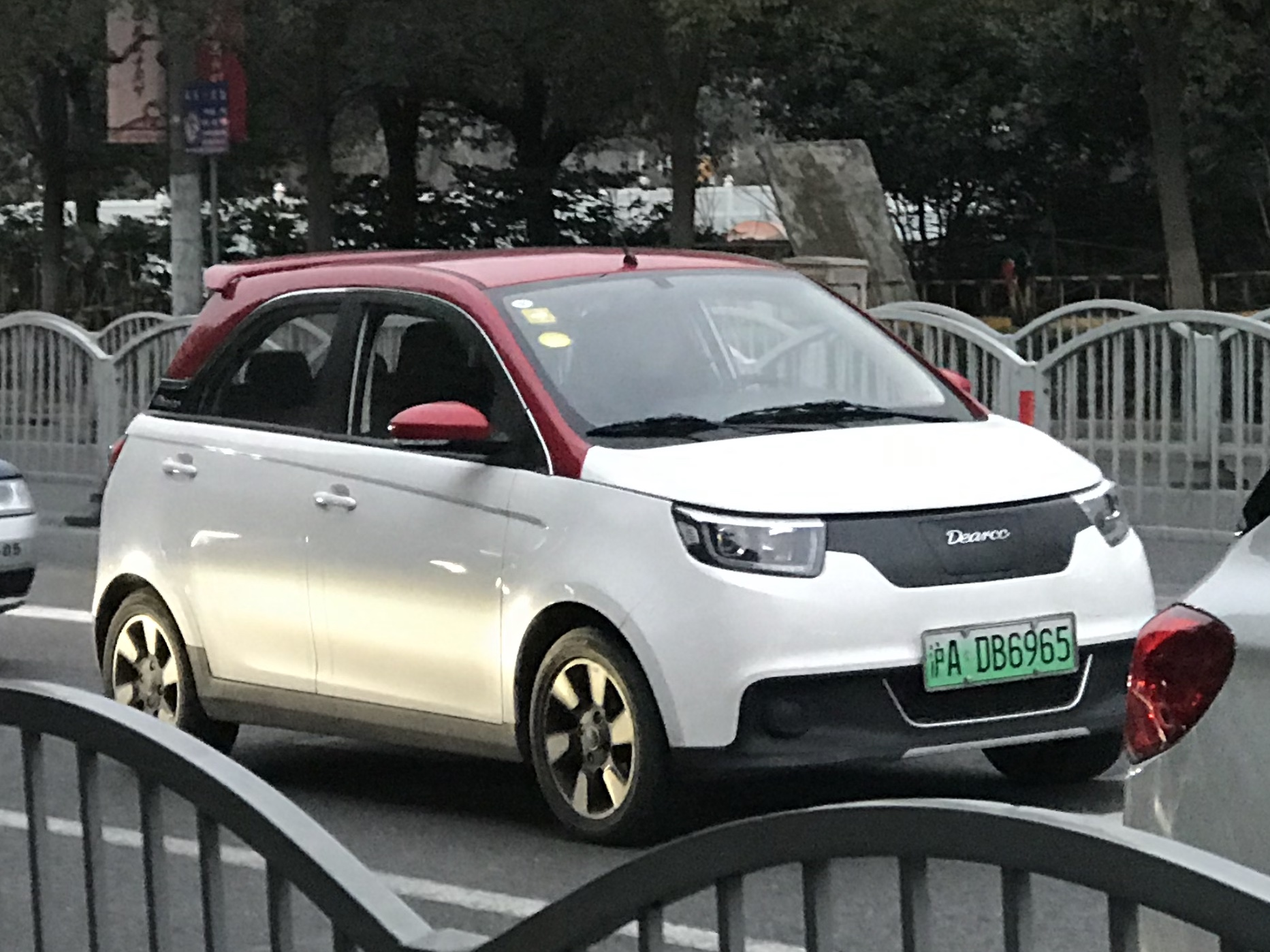 Dearcc EV10 front